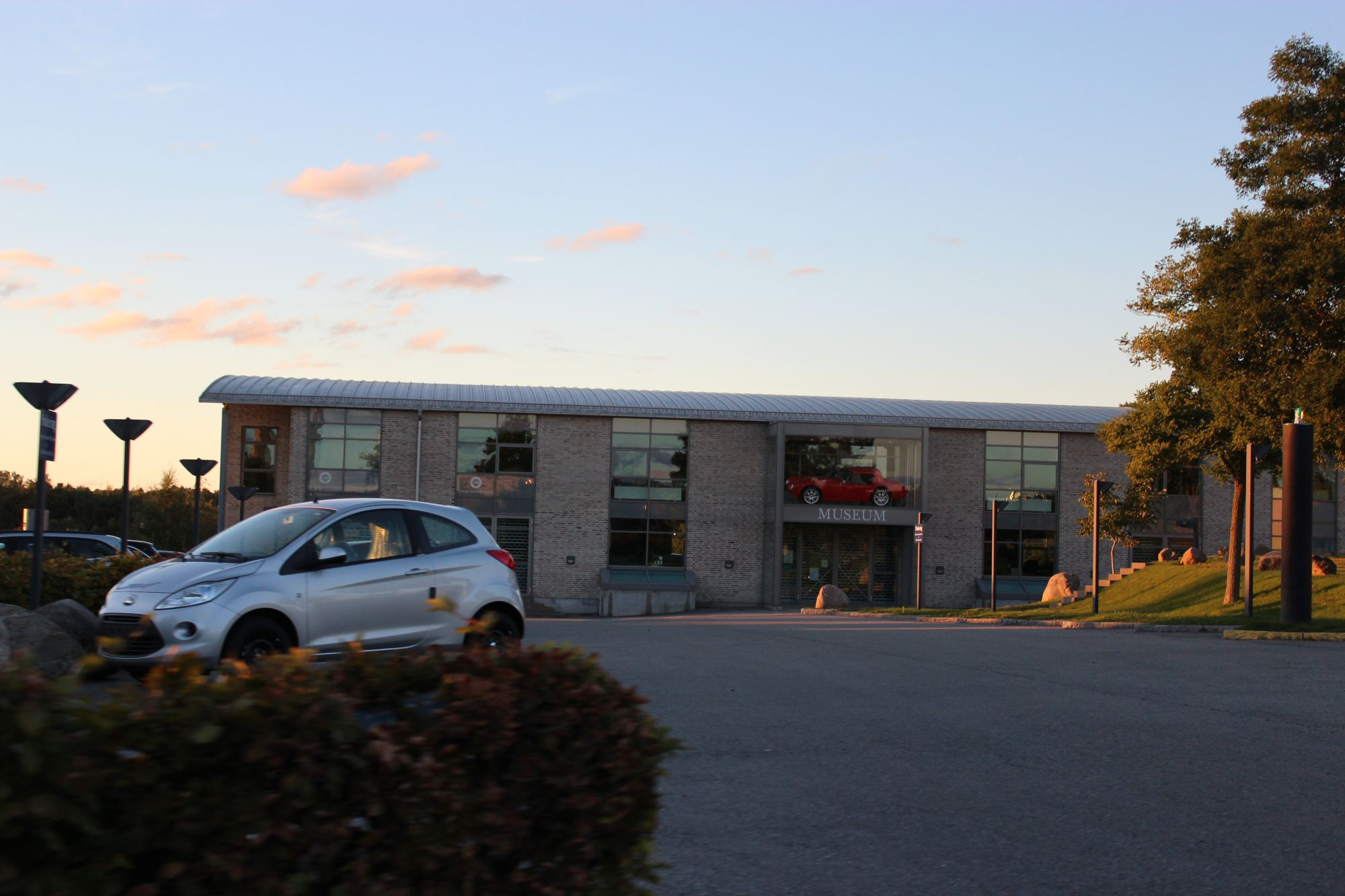 Entrance to Sommer's Automobile Museum in Nærum north of Copenhagen in Denmark